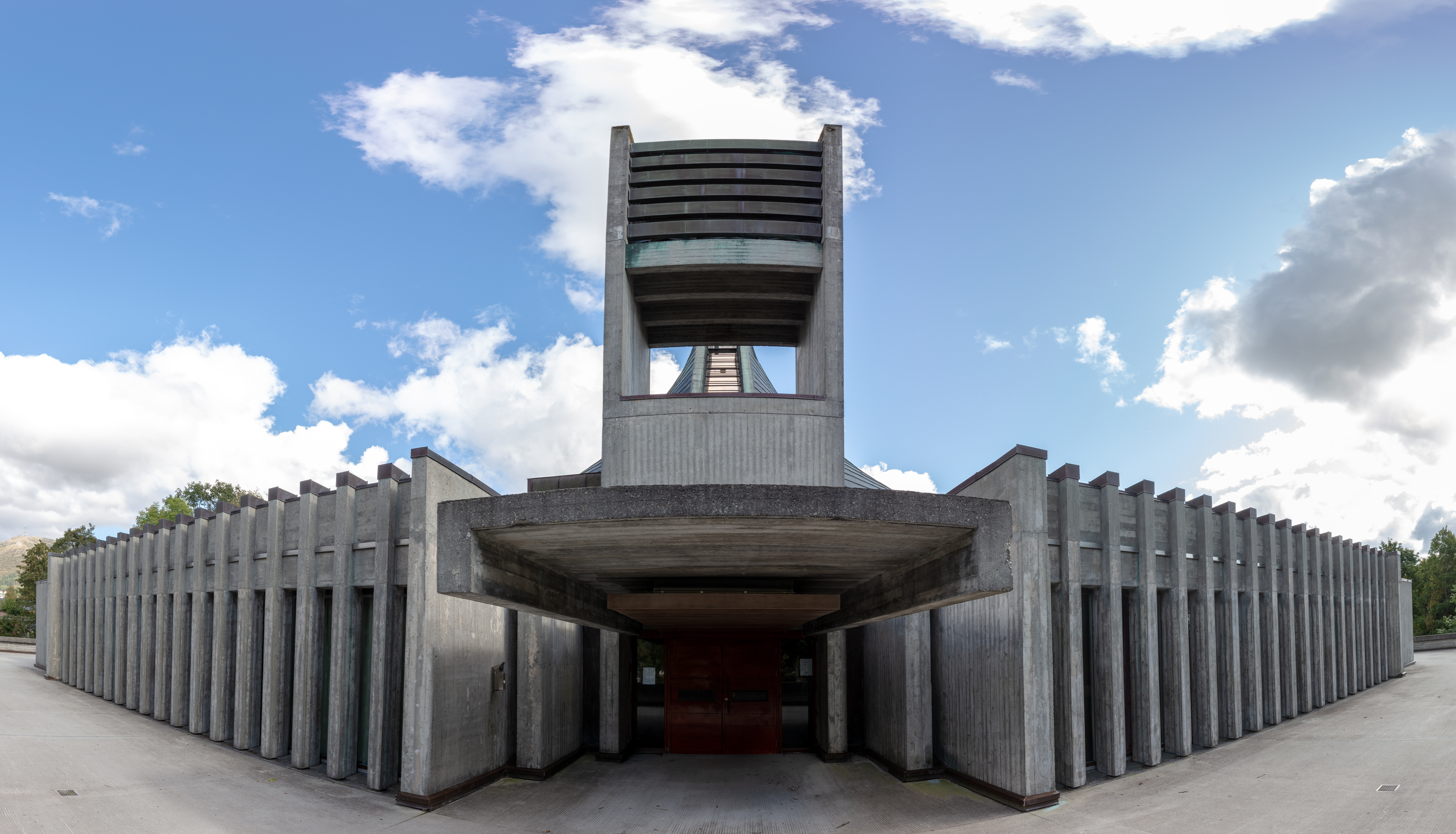 Slettebakken church, Bergen, Norway